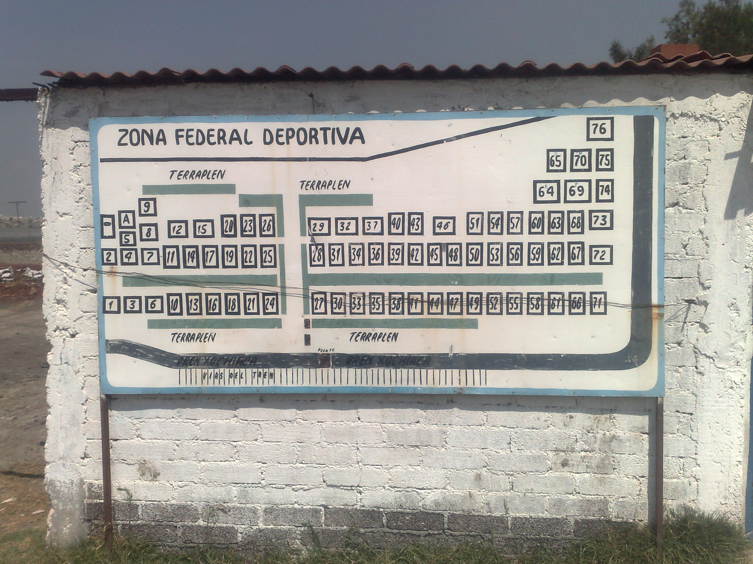 The Northern edge of Cd. Nezahualcoyotl used to be Mexico City's garbage dump, limited by one of the main open-air sweage systems. Its size is unbelievable – Huge is too small a word for it. After many years of being the dirtiest place in the city, it was shut down. Its land is poisoned unsuitable for basically anything. So, it was buldozered, leveled and covered in sand — and became an Ecological, recreational zone. The saddest, dirtiest ecological zone I've ever seen. A very surrealist setting. At least, recreational it is. Over the dead soil, 76 football fields were drawn. When we arrived there, we were amazed at the outflow of people – Many, many hundreds of people use this barren place for their Sunday morning sports. It must not be too healthy, but at least there is a sports, convivence area available for its huge population. This last image gives us a bit of perspective on the size of this beast: Each of the little squares is a full-size football field. There are 76 of them. We entered by the road more or less in the middle and reached near its North-East limt, then back. Didn't even look at the Western part — but it was surely more of the same unbelievable nothingness.